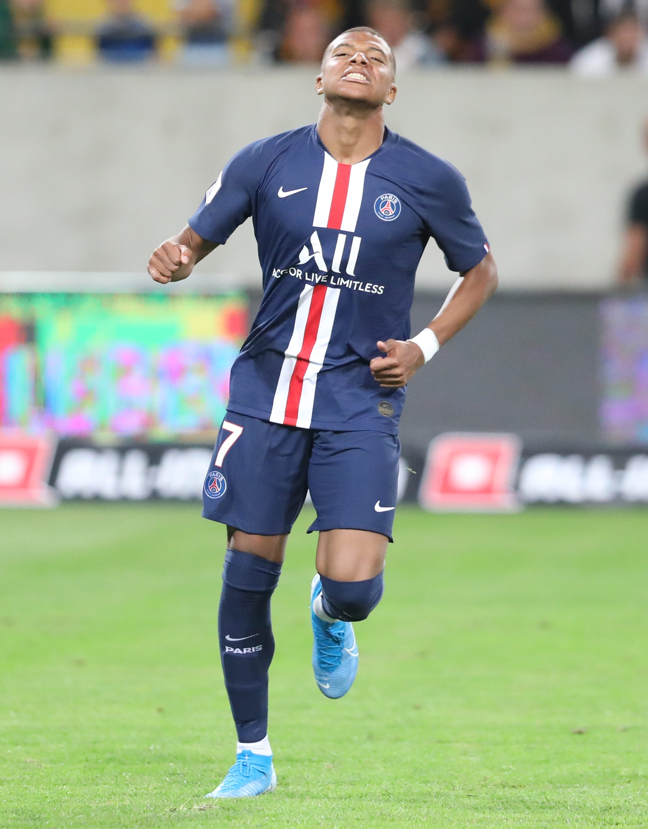 Test game, 17th July 2019: SG Dynamo Dresden vs. Paris Saint-Germain 1:6 (0:3)